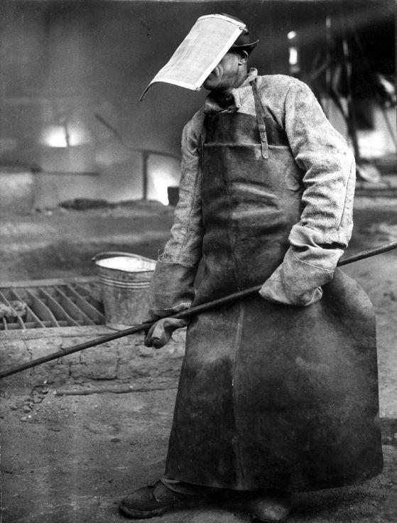 Spaarnestad Photo, SFA001015517 Arbeider in asbestkleding. Plaats en datum onbekend. Collectie SPAARNESTAD PHOTO Worker wearing protecting clothes (asbestos). Location and date unknown. Voor meer informatie en voor meer foto’s uit de collectie van Spaarnestad Photo, bezoek onze Beeldbank: U kunt ons helpen onze kennis van de fotocollecties te verrijken door tags en commentaren toe te voegen. Herkent u mensen of locaties of heeft u een bijzonder verhaal te vertellen bij één van de foto’s, laat dan een reactie achter (als u ingelogd bent bij Flickr) of stuur een mailtje naar: You can help us gain more knowledge on the content of our collection by simply adding a comment with information. If you do not wish to log in, you can write an e-mail to